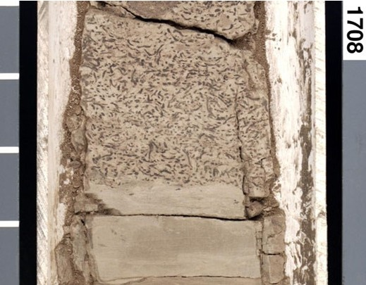 Helminthopsis trace fossils in an Upper Miocene (Delmontian Stage) diatomite core from a well at Lost Hills Oil Field in California